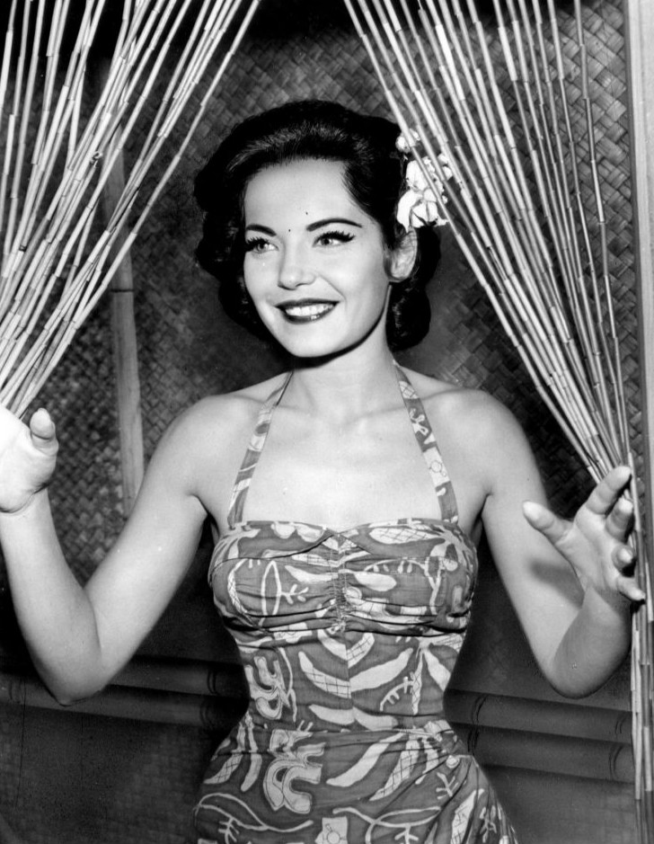 Photo of Linda Lawson as Renee from the television program Adventures in Paradise. Lawson became a regular on the series in the show's second season.